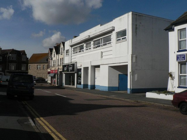 This art deco building has been the headquarters of the local radio station for at least 20 years to my knowledge. Originally known as Two Counties Radio, it is now named after its long-term colloquial abbreviation of 2CR.